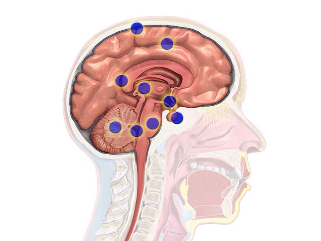 Brain Cancer Regions. [1]